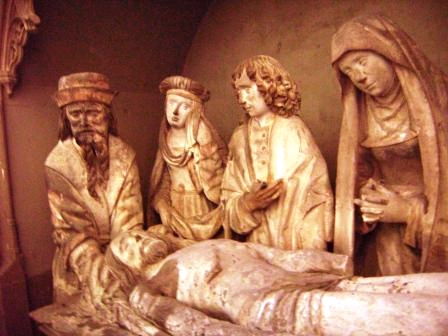 Holy Sepulchre, late Gothic